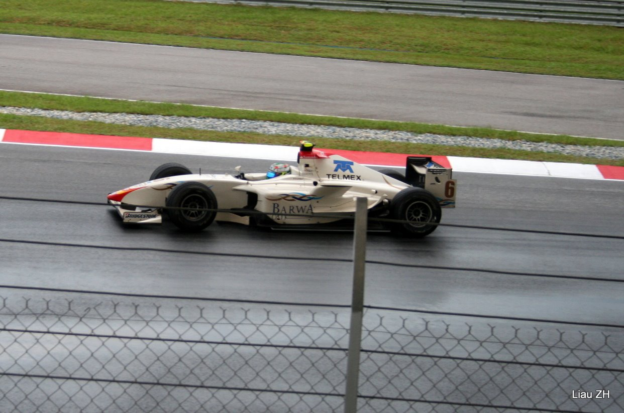 Sergio Perez, GP2 Asia 2008-09